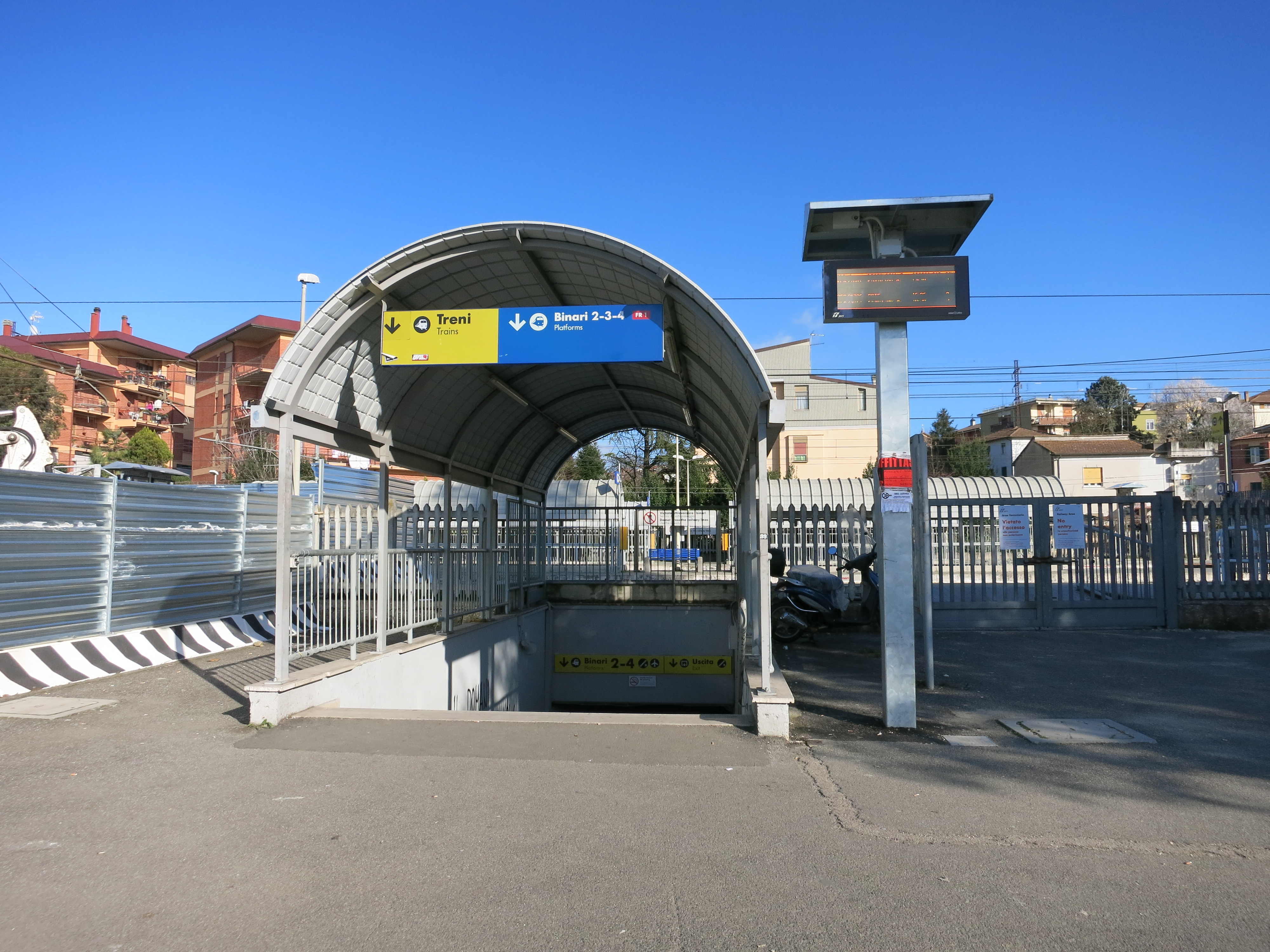 Subway entrance - Train station of Fara Sabina-Montelibretti (village of Passo Corese in the municipality of Fara in Sabina - Province of Rieti, Lazio, Italy)